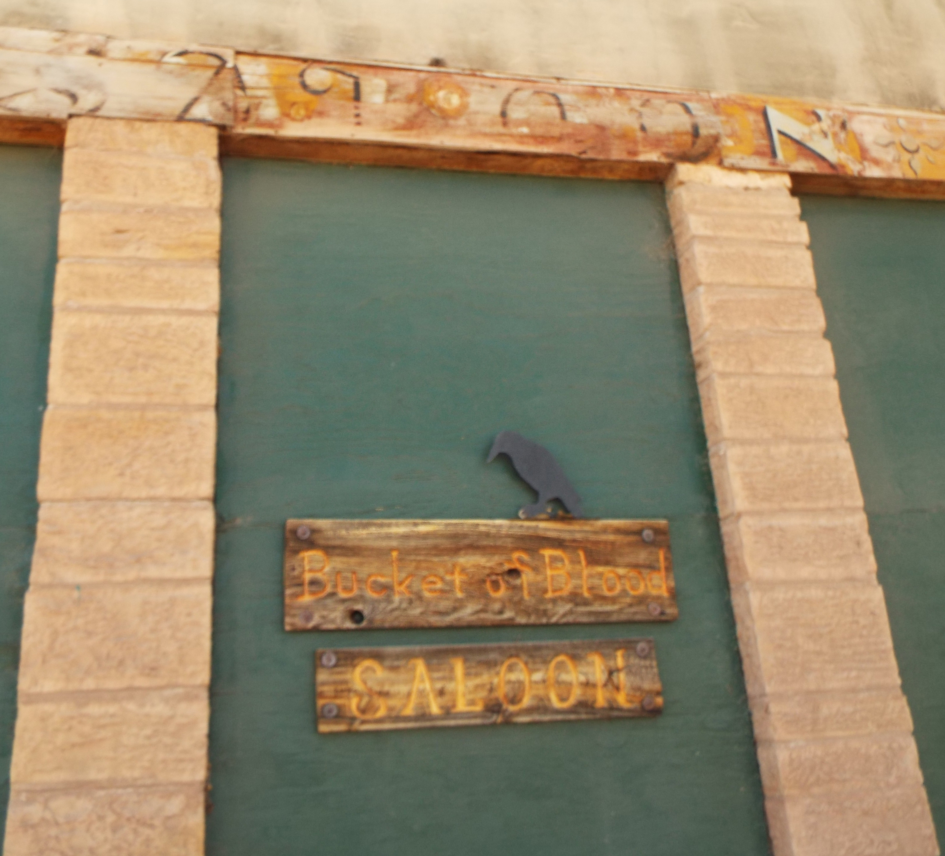 Bucket of Blood (Cottage) Saloon Constructed in 1888 by Byron Terrill; acquired by Helming in 1939. Originally constructed as the Cottage Saloon. Sold in 1889 to Charles O. Brown. The property remained in the Brown family until its acquisition by Henning. Operated under lease arrangements to various saloon keepers by different "official" names, but known informally as the Bucket of Blood Saloon after an 1891 double murder. Essentially vacant after prohibition; used for storage.